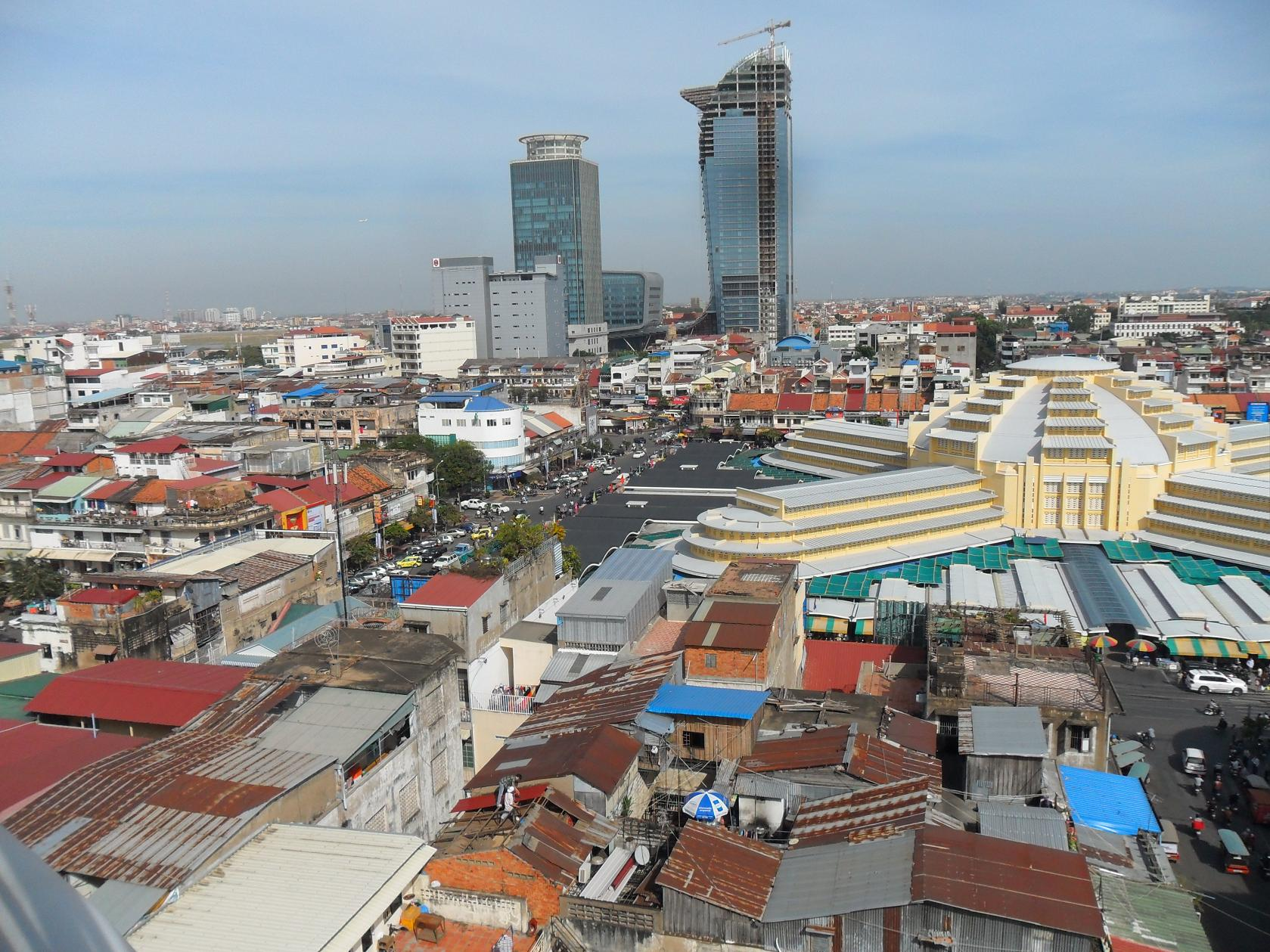 Phnom Penh, Cambodia